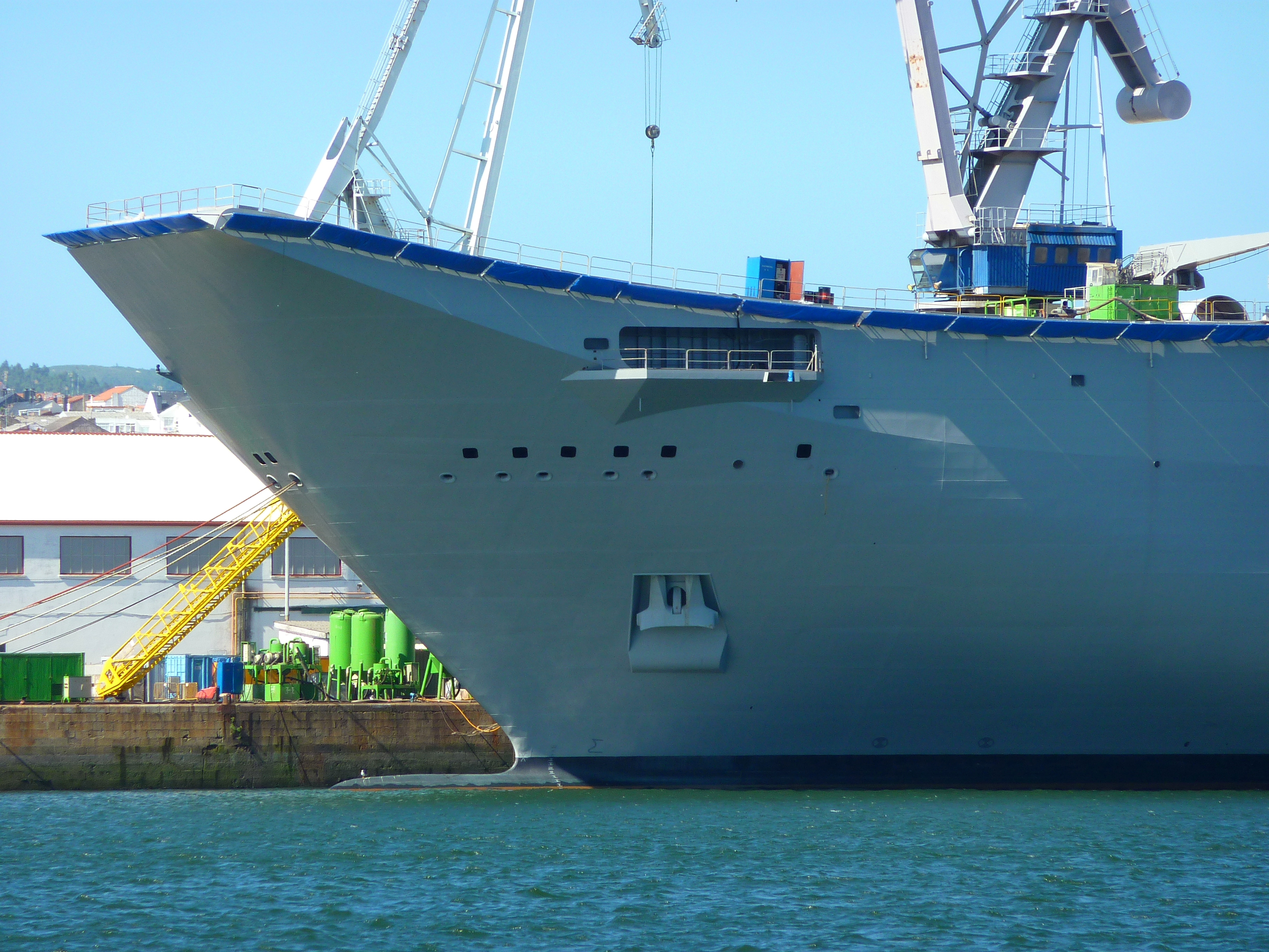 Spanish Navy LHD ship "Juan Carlos I", L-61.